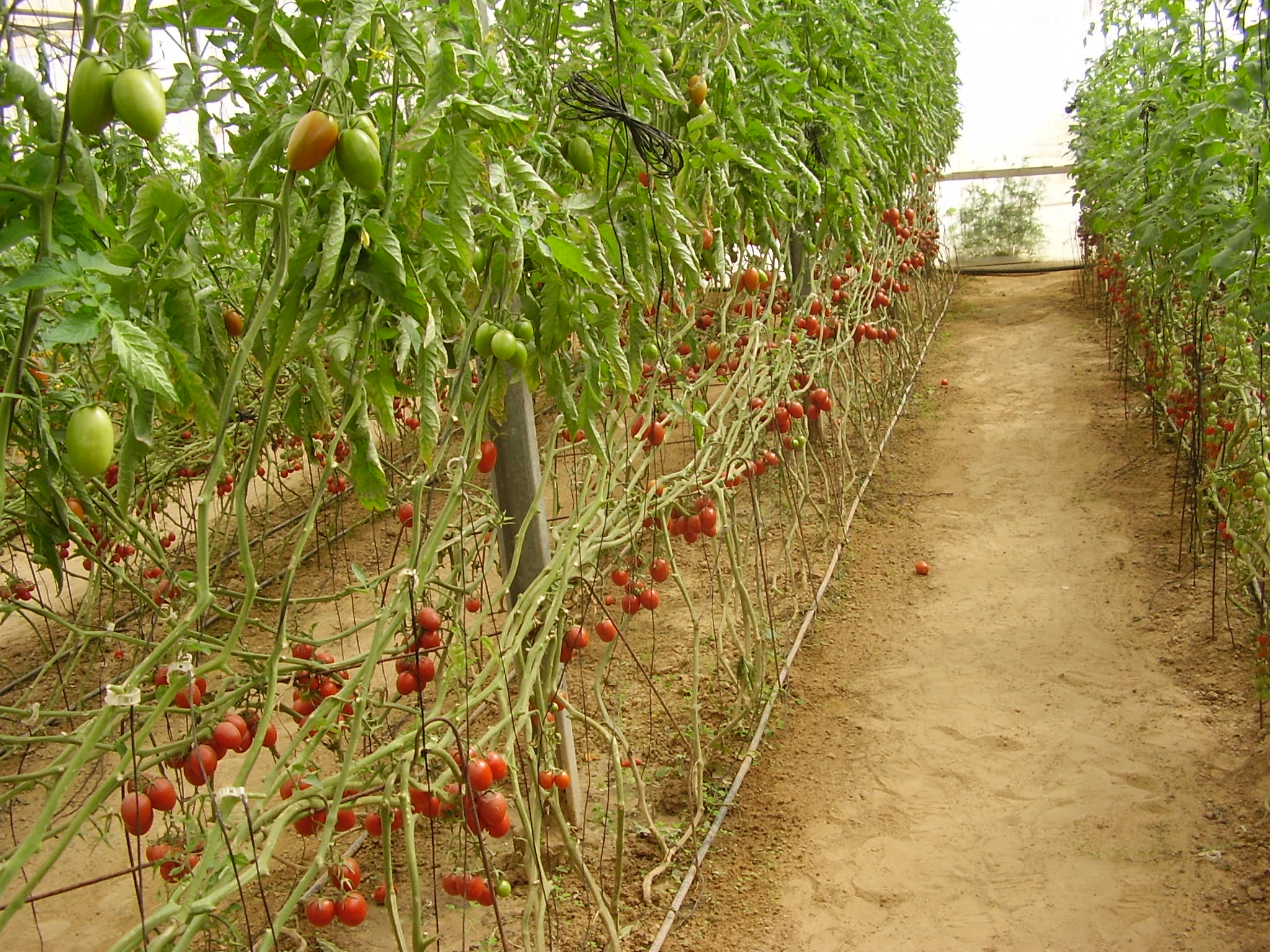 Tomatoes in Talmei-Yosef in the Negev